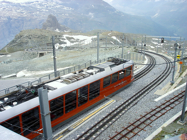 Gornergratbahn GGB/ Gornergrat